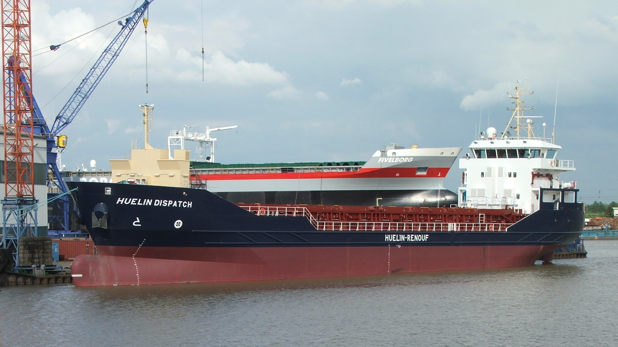 Motorfreighter Huelin Dispatch IMO Number: 9419280 In the background the Fivelborg IMO Number: 9419280